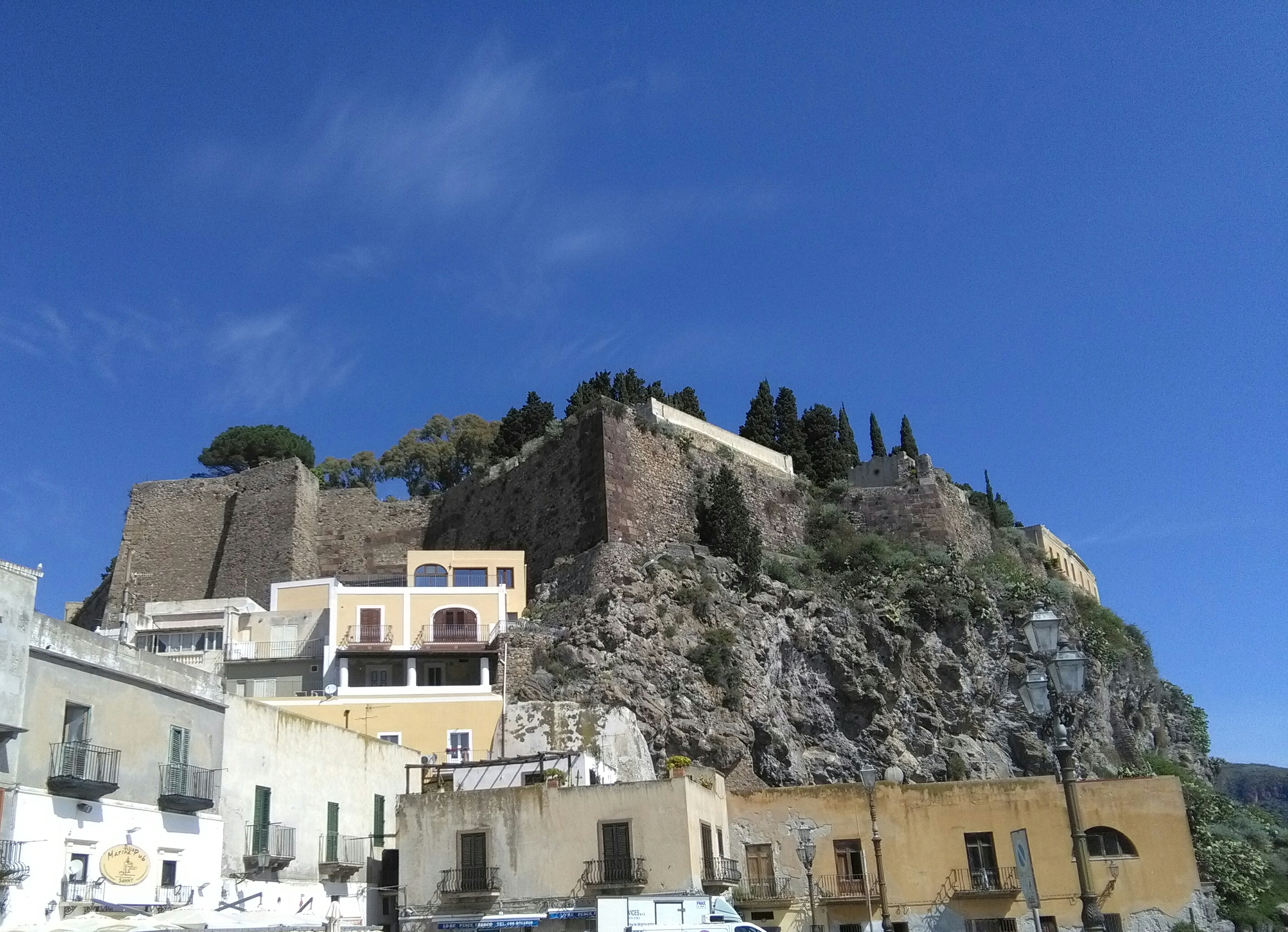 view of Lipari castle on the old Greek Acropolis as seen from Piazza Marina Corta